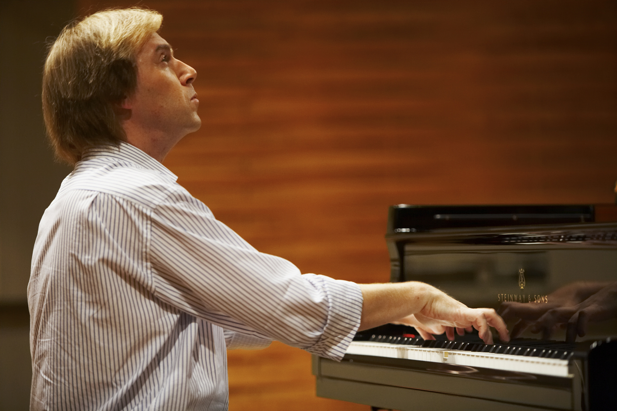 Burkard Schliessmann in Teldex Studio, Berlin, during the recording-session of the Goldberg Variations of Joh. Seb. Bach